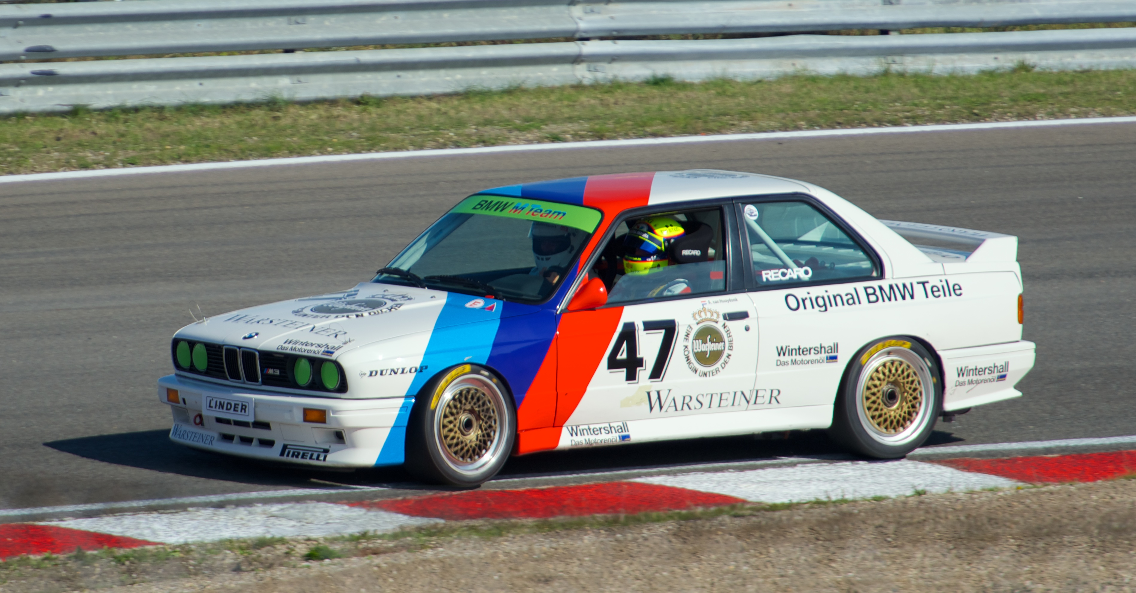 BMW M3 (Group A)